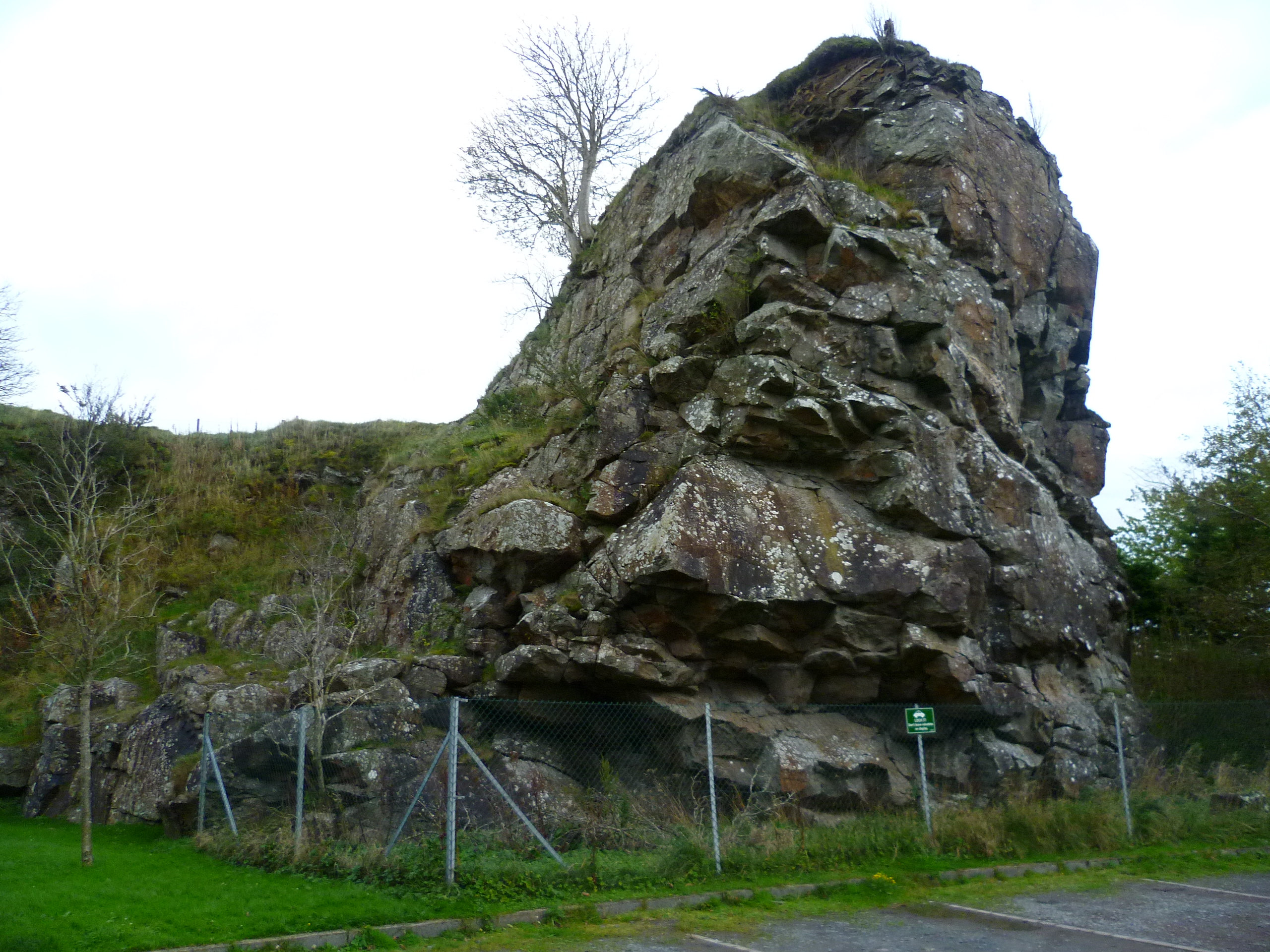 So called because local folklore tells of witches jumping (carlins lowpin') from this rock to a rockface opposite to keep themselves entertained; hence the name of the village.